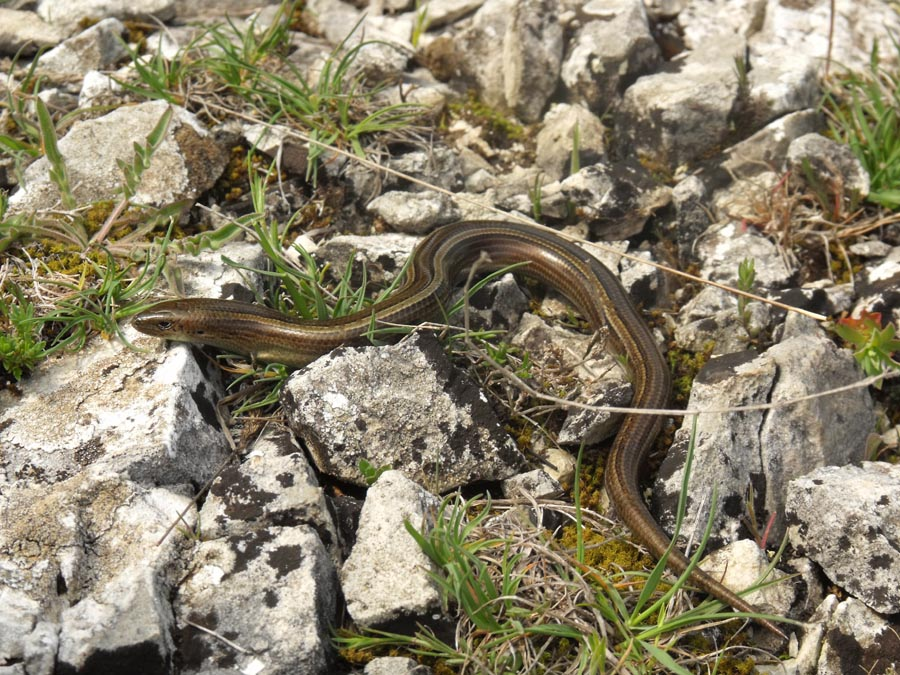 Chalcides chalcides photographed in Gargano area (Apulia, southern Italy) in a dry karstic meadow with Orchidaceae bloom. Photo by Marcelli Massimiliano.